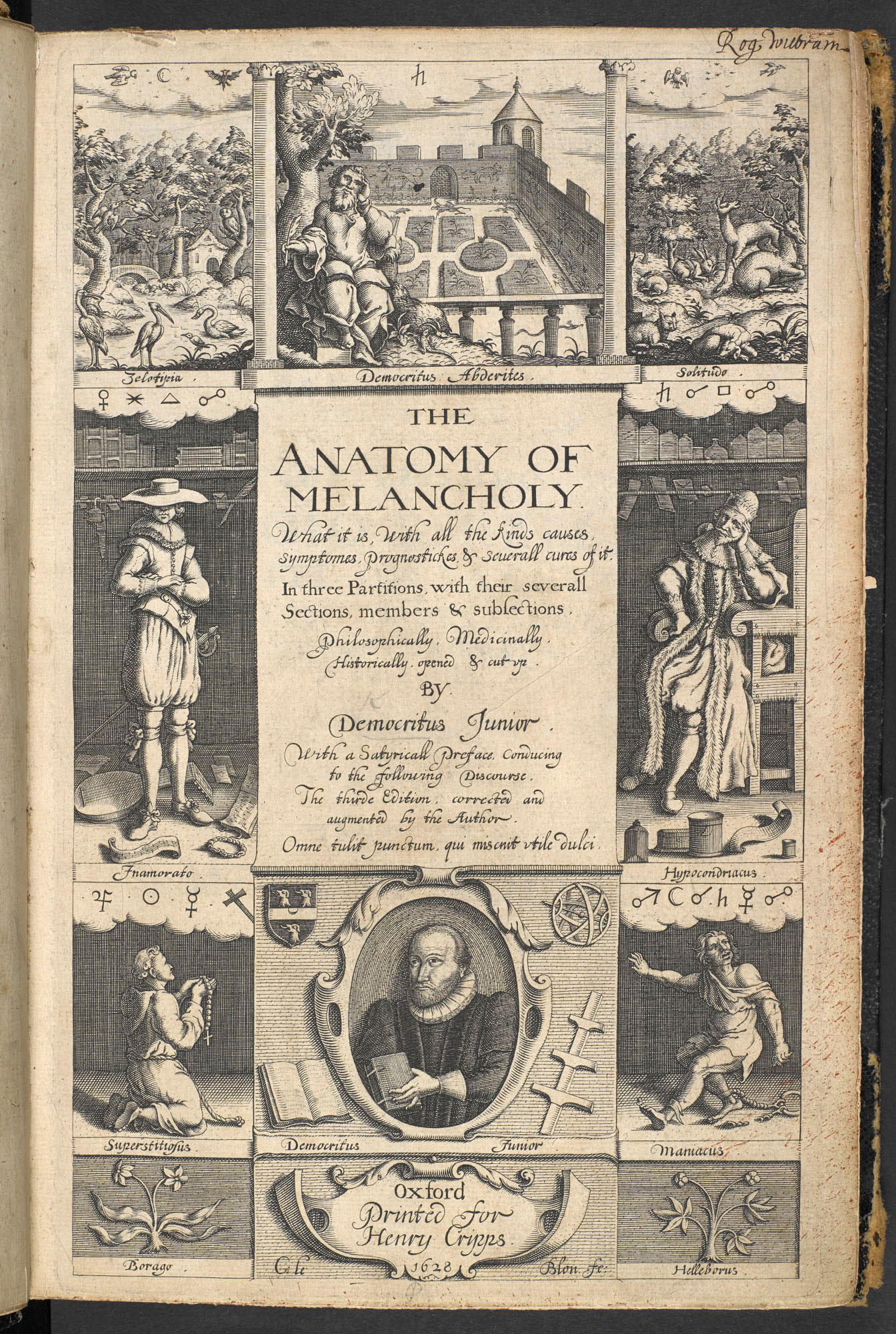 Robert Burton's Anatomy of Melancholy, 1628, third edition. The frontispiece is an allegorical work, explained within the book.